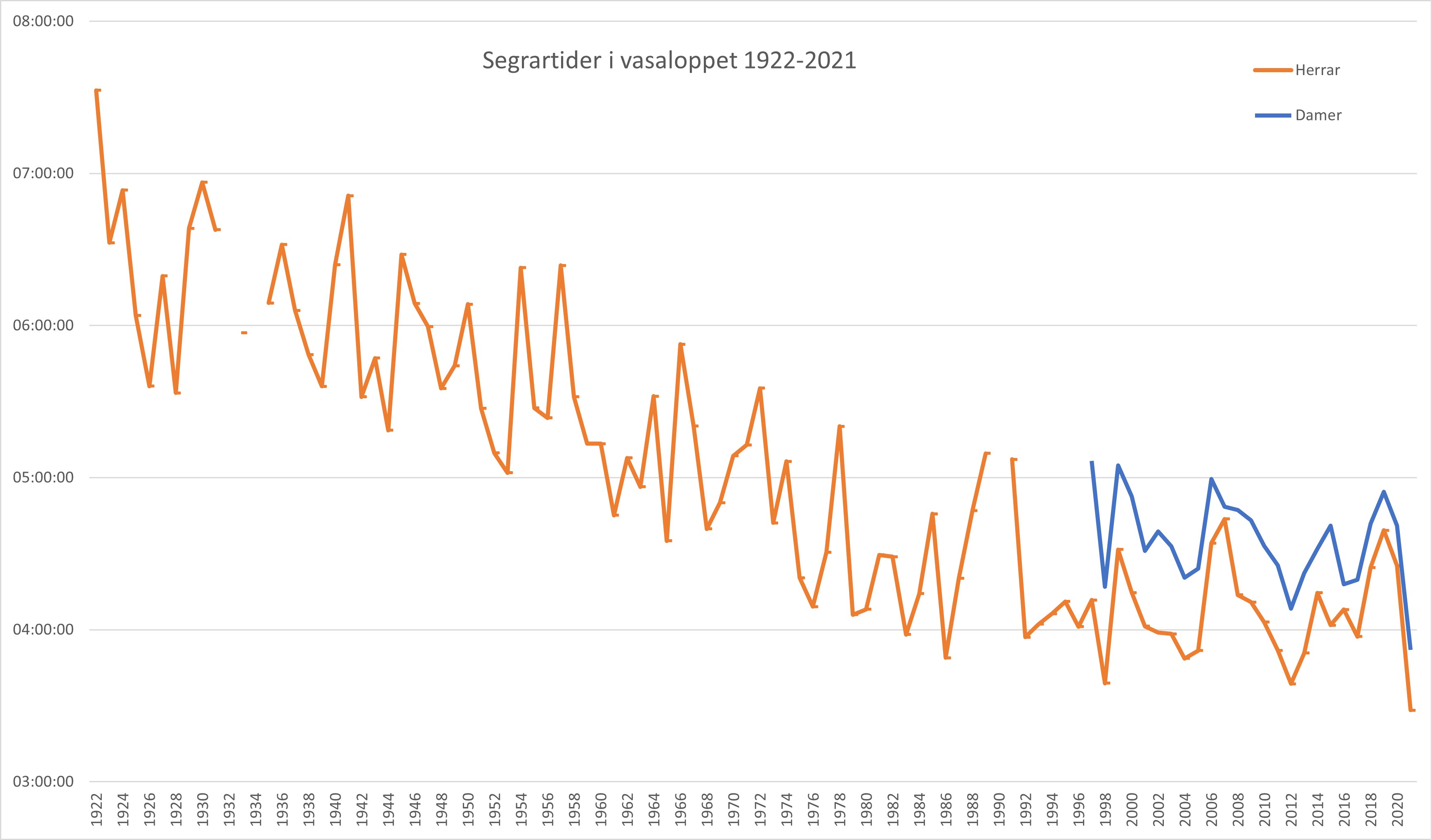 Winners time and speed at Vasaloppet 1922-2009